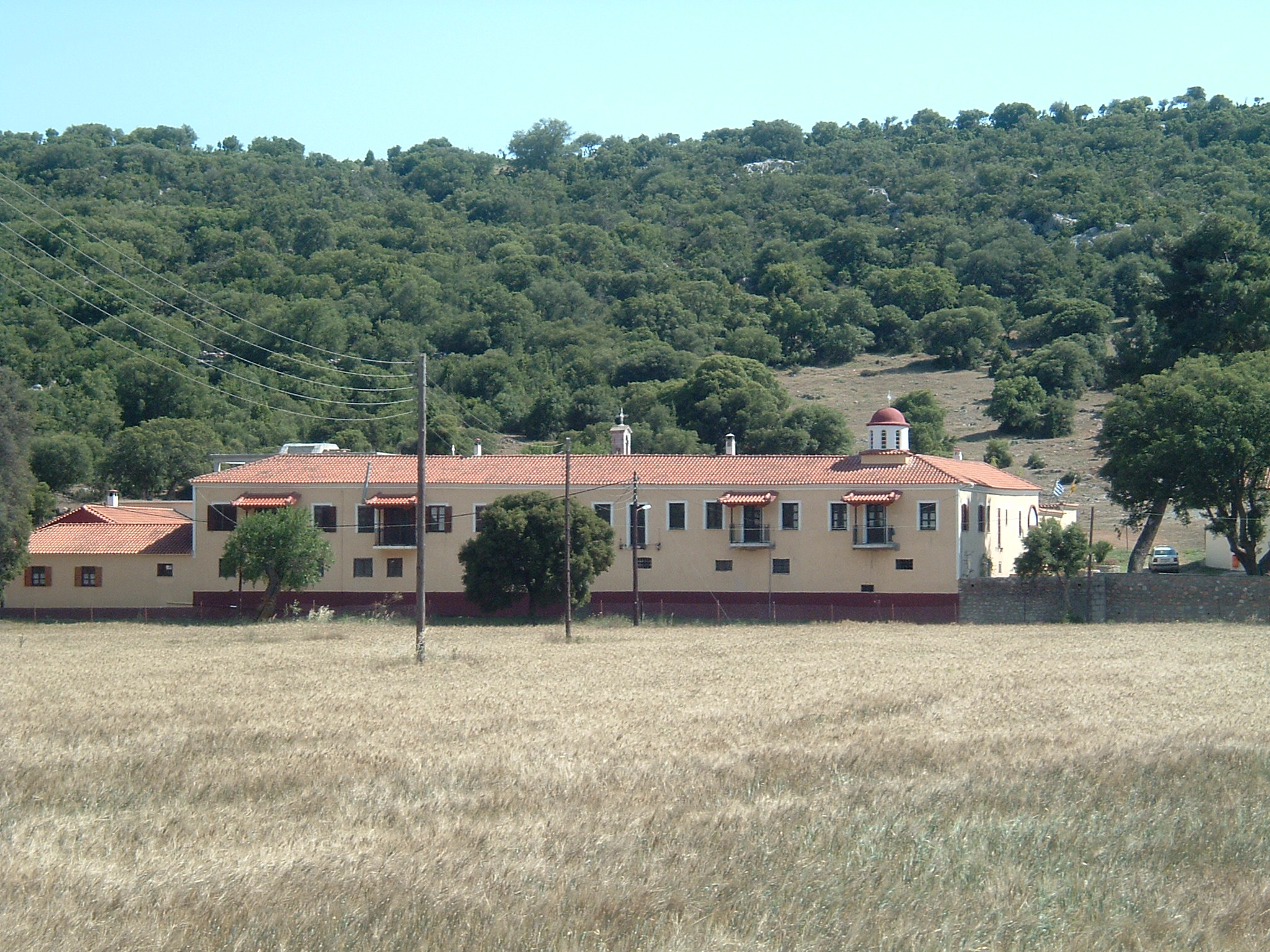 New monastery of Prodromos in Desfina, Fokida, Greece